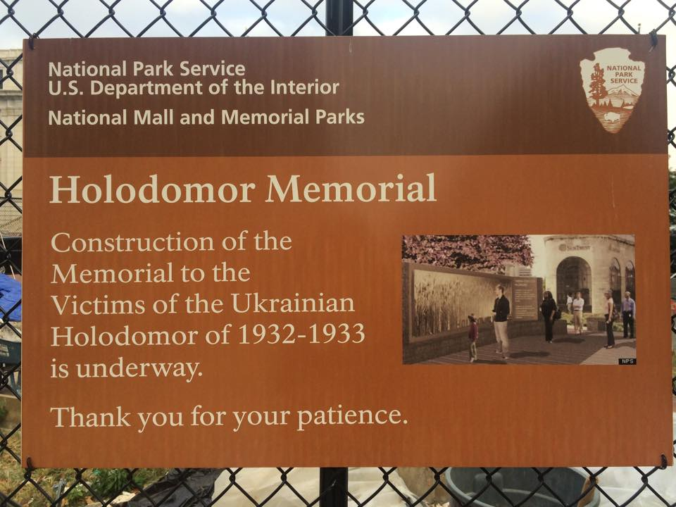 Washington memorial to victims of genocidal famine in Ukraine